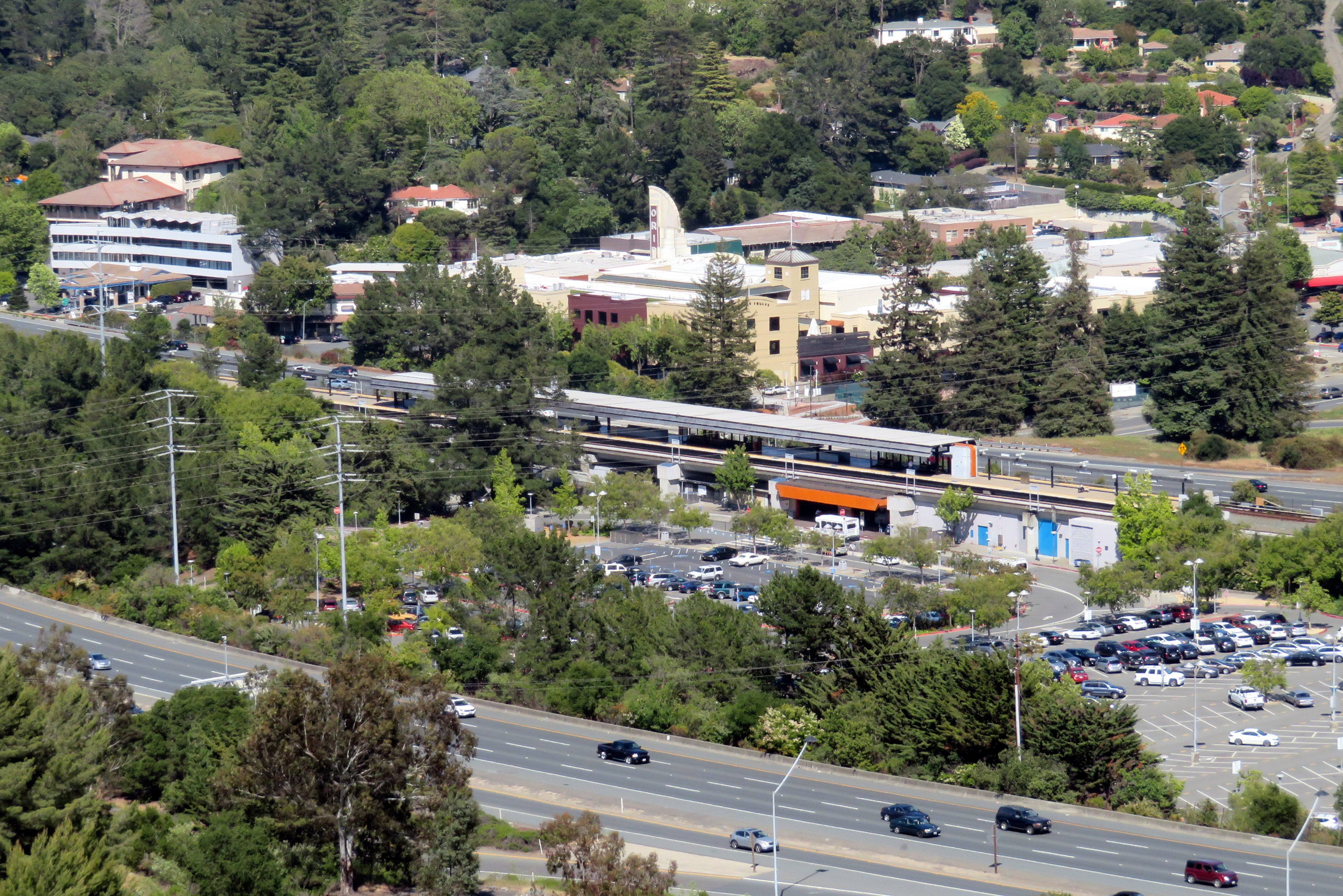 Orinda station viewed from a hill in the Siesta Valley Recreation Area in May 2018